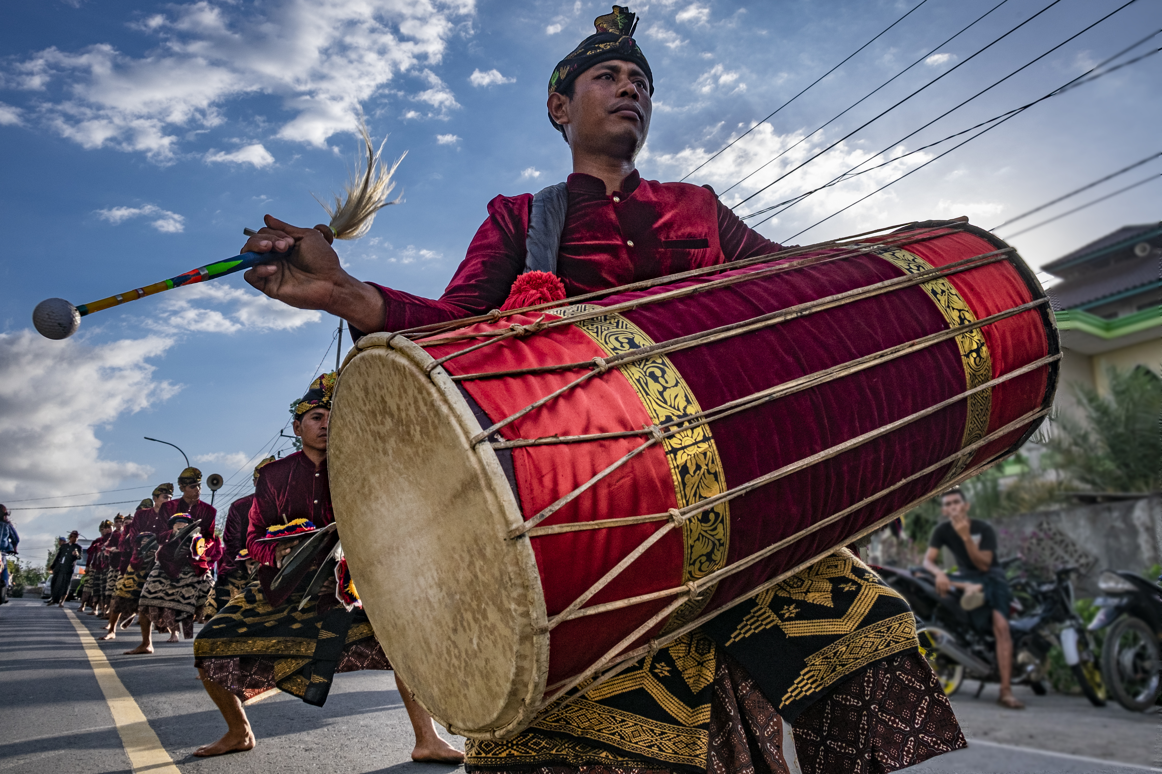 Gendang Beleq is a traditional musical instrument that is played in groups. Originally from the Sasak tribe, Lombok, West Nusa Tenggara, besides the drum it is also equipped with a flute and ceng ceng This photo has been taken in the country: Indonesia